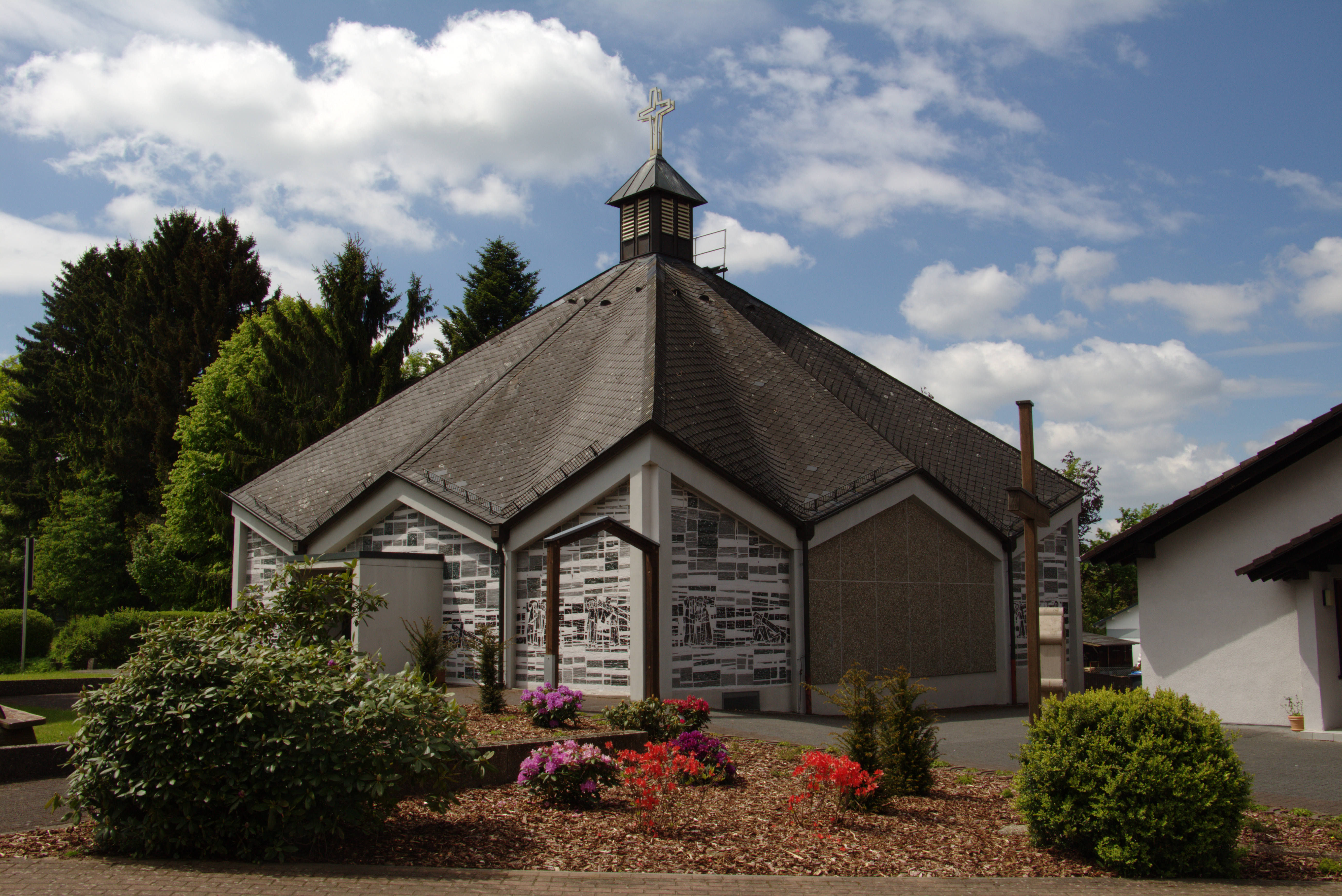 Catholic Church in Grebenhain, Eisenbergsweg, Grebenhain, Hesse, Germany